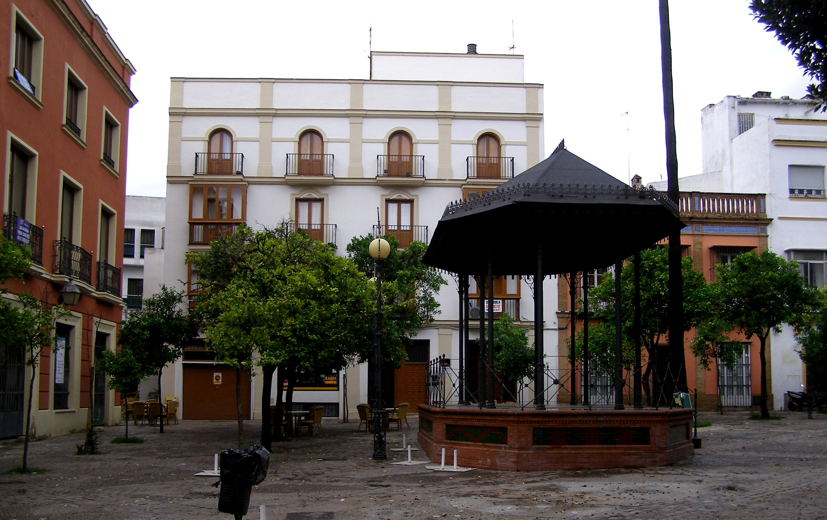 Bank Square. Jerez de la Frontera. Templete Bandstand